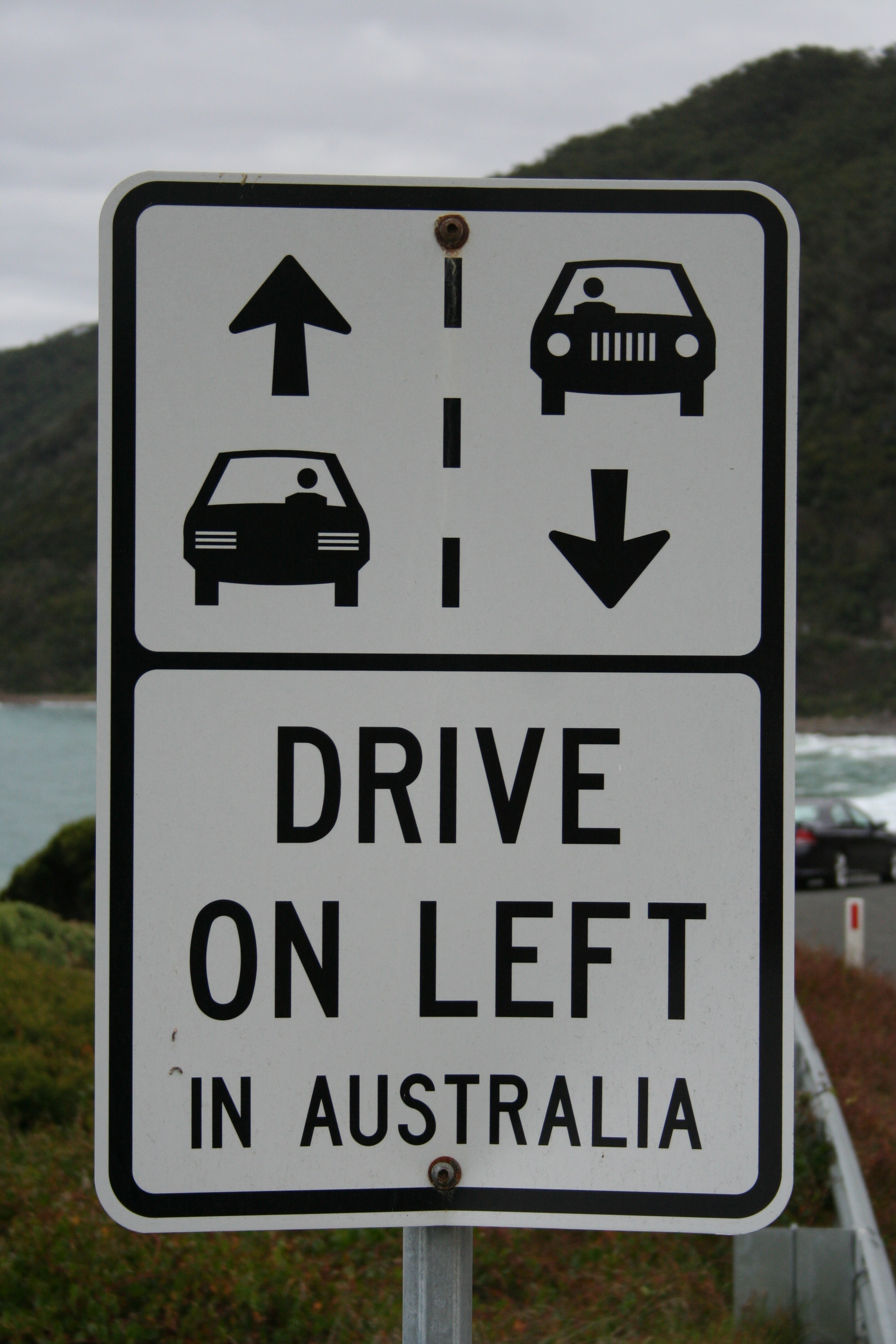 Description: A sign on the Great Ocean Road in Victoria, Australia that reads "Drive on left in Australia". Other versions of this file: available on request